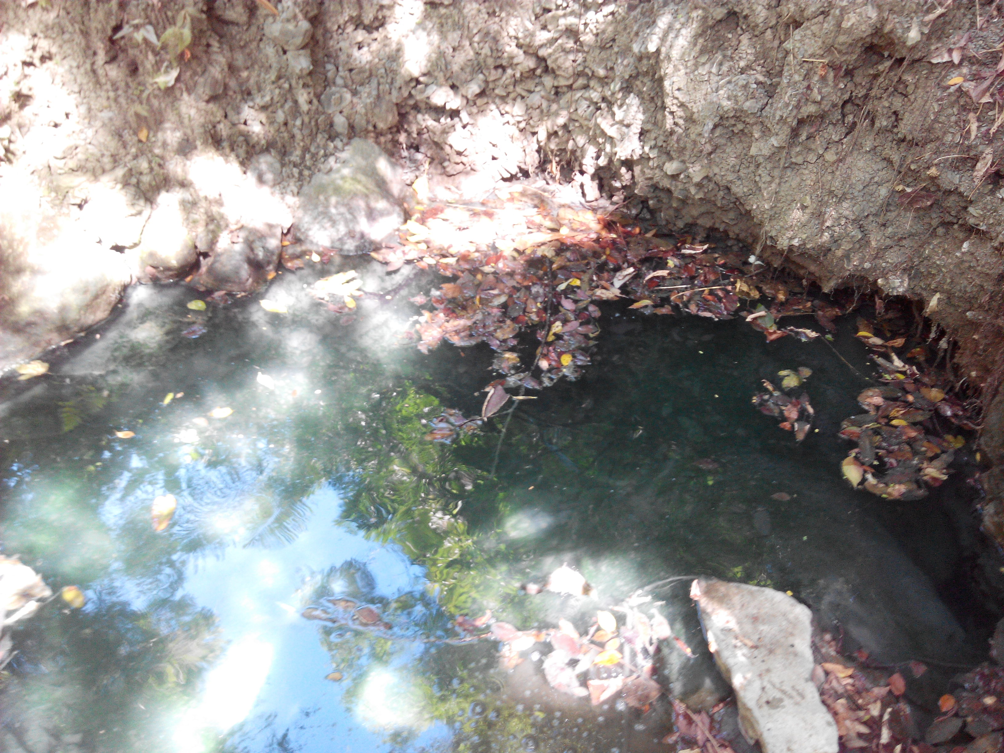 Liji Hot Spring Second Outcrop Closer Look